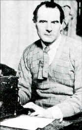 Seán O'Casey